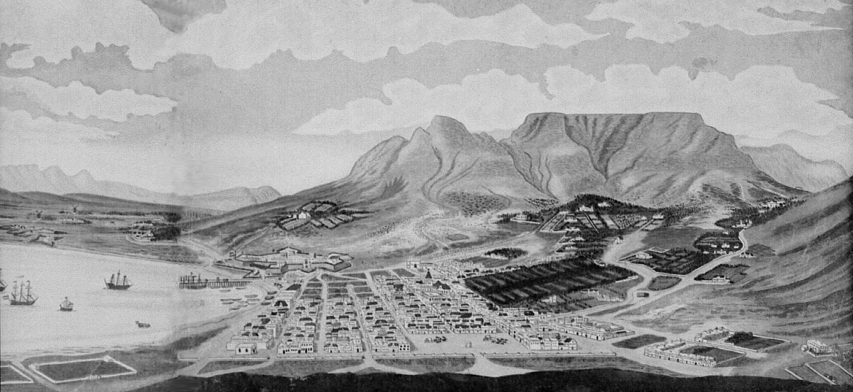 Aquarel of Cape Town in 1776--1777, view from Signal Hill Source : aquarelle de Johannes Schumacher, Collection Swellengrebel, Breda (Pays-Bas).